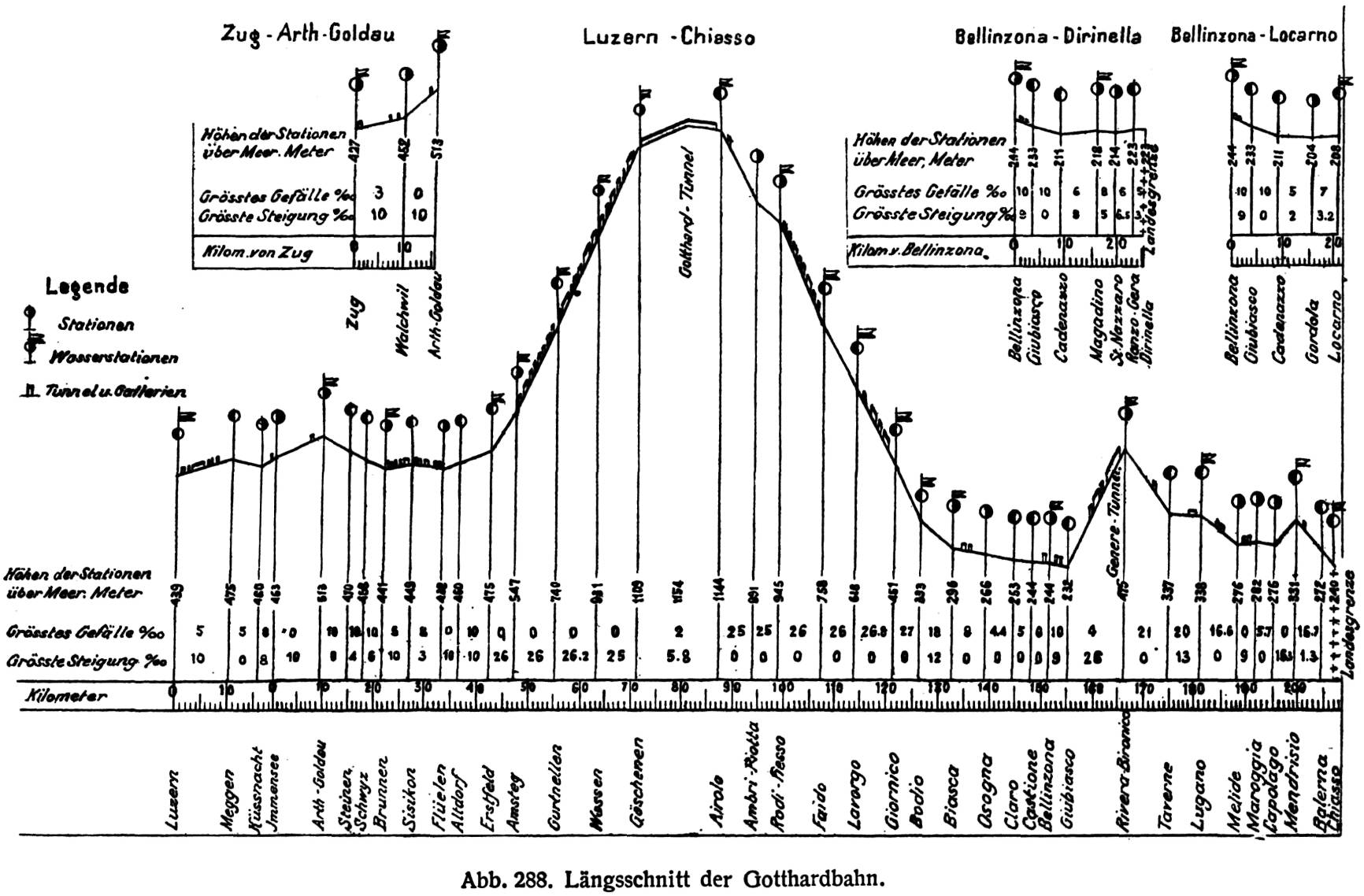 Longitudinal profile of the Gotthardbahn from Luzern to Chiasso in Switzerland. The route elevation above sea level in [m] is shown above the travel distance from Luzern in [km] as linear interpolation between stations. Positions of stations, water stations, tunnels galleries and national borders are marked. The elevation of stations in [m] and steepest in- and decline of segments between stations are noted in [‰]. Branchlines from Zug to Arth-Goldau, from Bellinzona to Dirinella and from Bellinzona to Locarno are also shown.